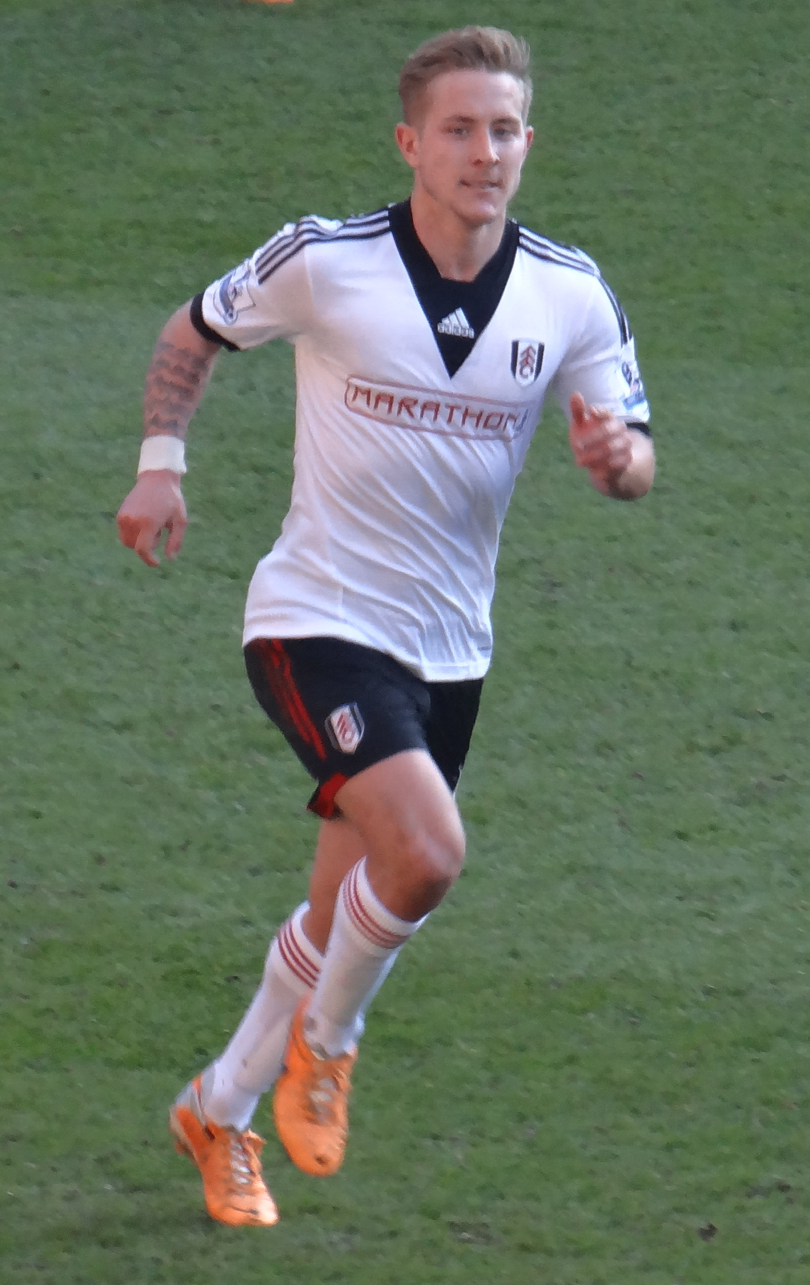 08/03/14 Cardiff City v Fulham, Premier League, Cardiff City Stadium, Cardiff, Wales